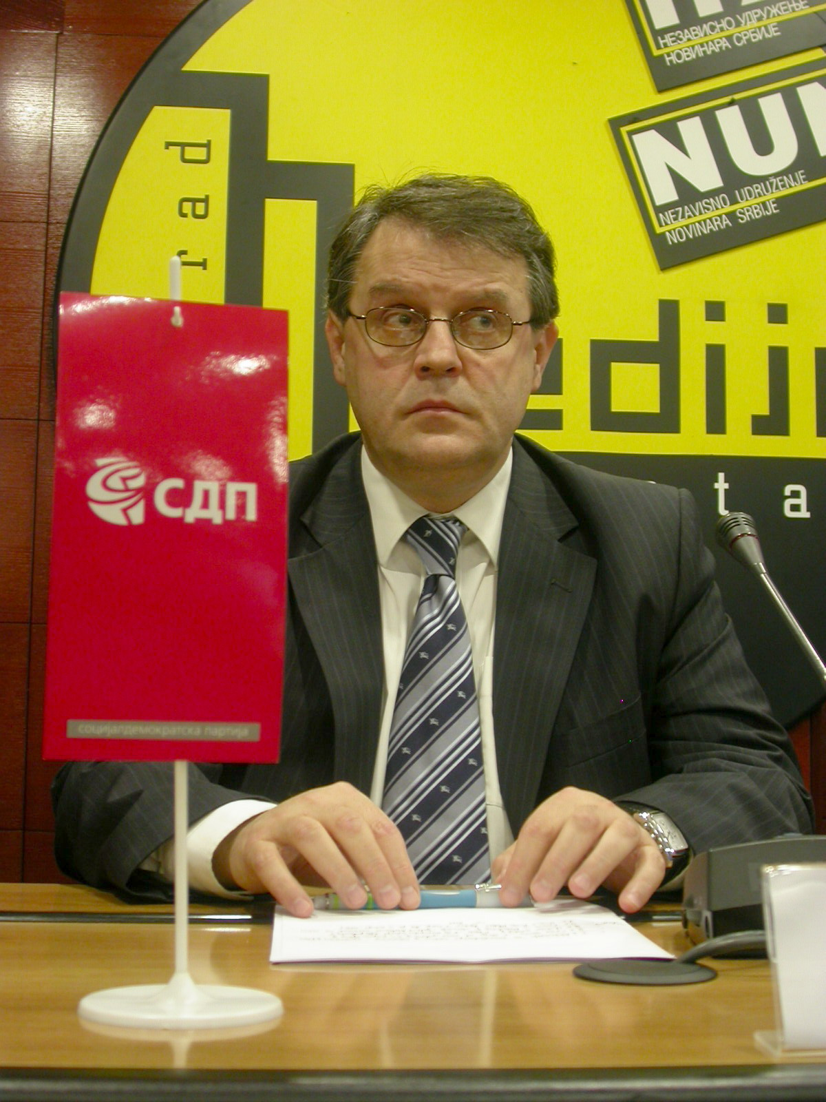 Nebojša_Čović